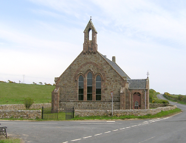 Bennecarrigan Free Church of Scotland - Front view Now unused